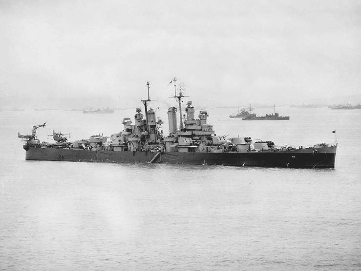 The U.S. Navy light cruiser USS Miami (CL-89) in a Pacific Ocean anchorage, soon after the end of the war with Japan, circa September-October 1945. Two Curtiss SC-1 Seahawks are on the catapults, a third is placed on the hangar. An old flush-deck destroyer converted to a high speed transport (APD) is anchored in the background.